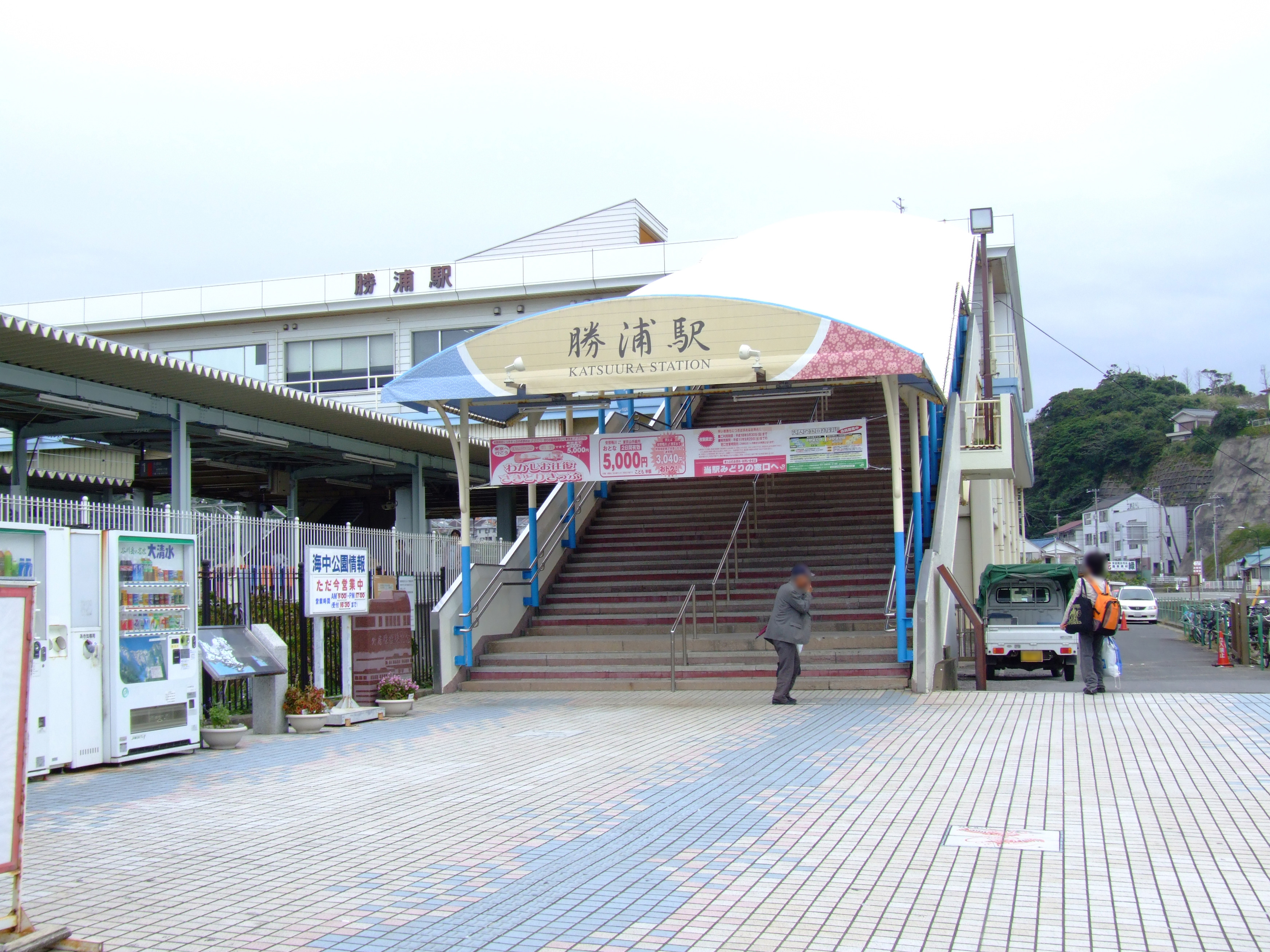 The south-side entrance to Katsuura Station on the JR East Sotobō Line